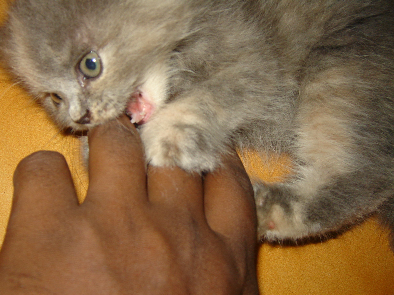 A Persian kitten play fighting with its owner. When separated from mother and siblings, a kitten would engage in active play fighting with humans. Play fighting may involve playful biting, but the bite is generally not serious.